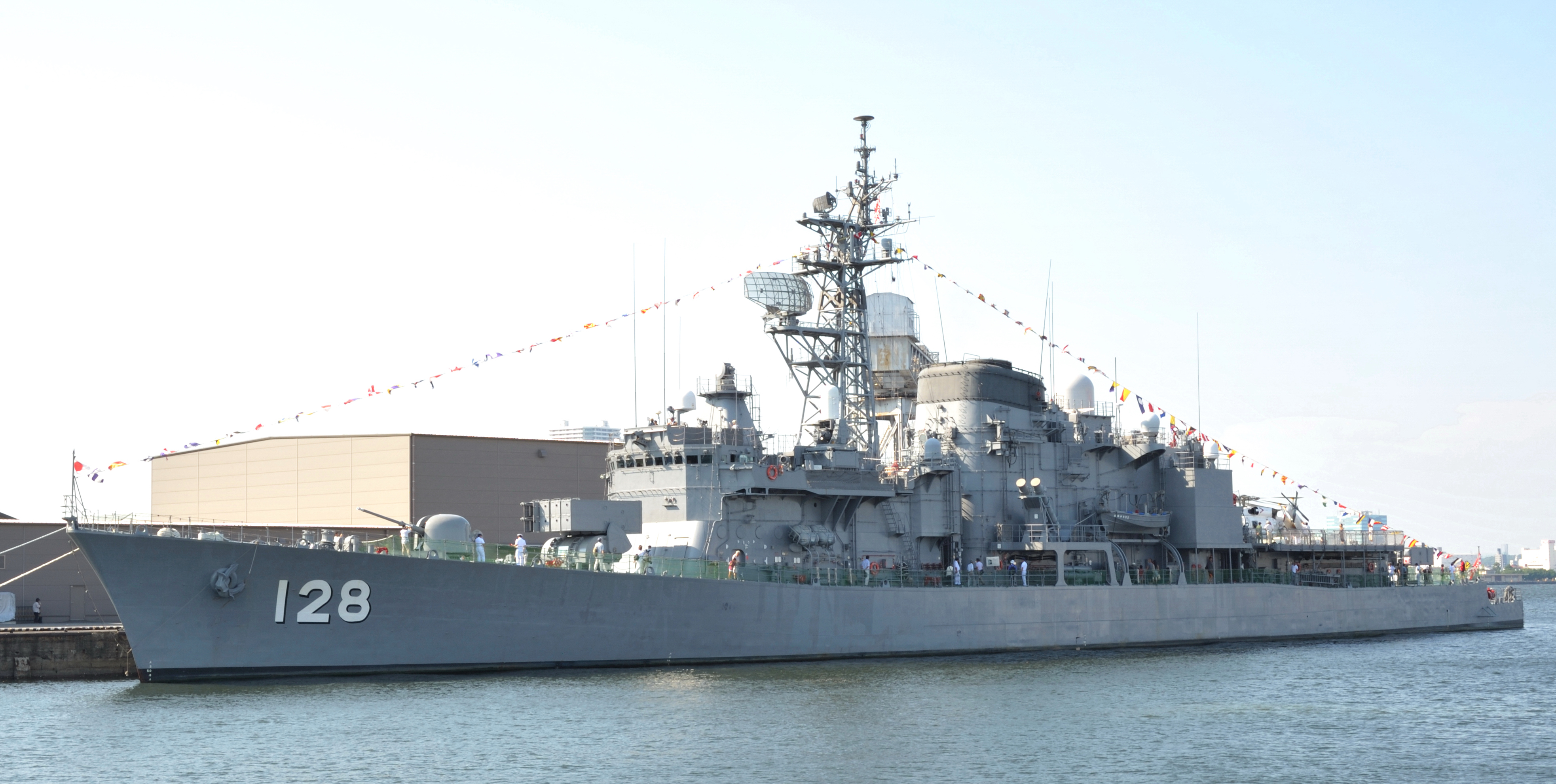 JS Haruyuki (DD-128) at Yokohama. Nikon D700 + AF-S VR 24-120mm f/3.5-5.6G IF-ED